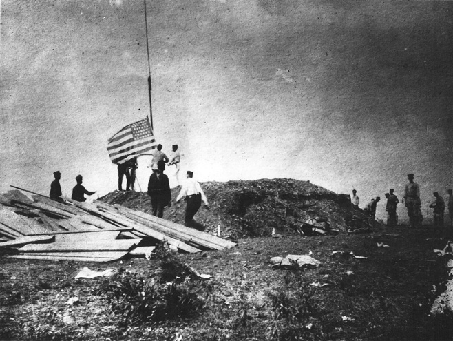 The First Marine Battalion (United States), commanded by Lieutenant Colonel Robert W. Huntington, landed on the eastern side of Guantánamo Bay, Cuba on 10 June 1898. The next day, an American flag was hoisted above Camp McCalla where it flew during the next eleven days.